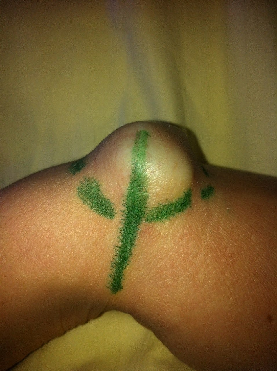 Gangleon before surgery